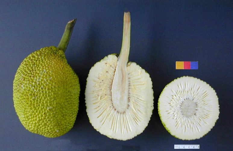 Fruit of Artocarpus altilis (HART 49 MEIN POHNSAKAR)